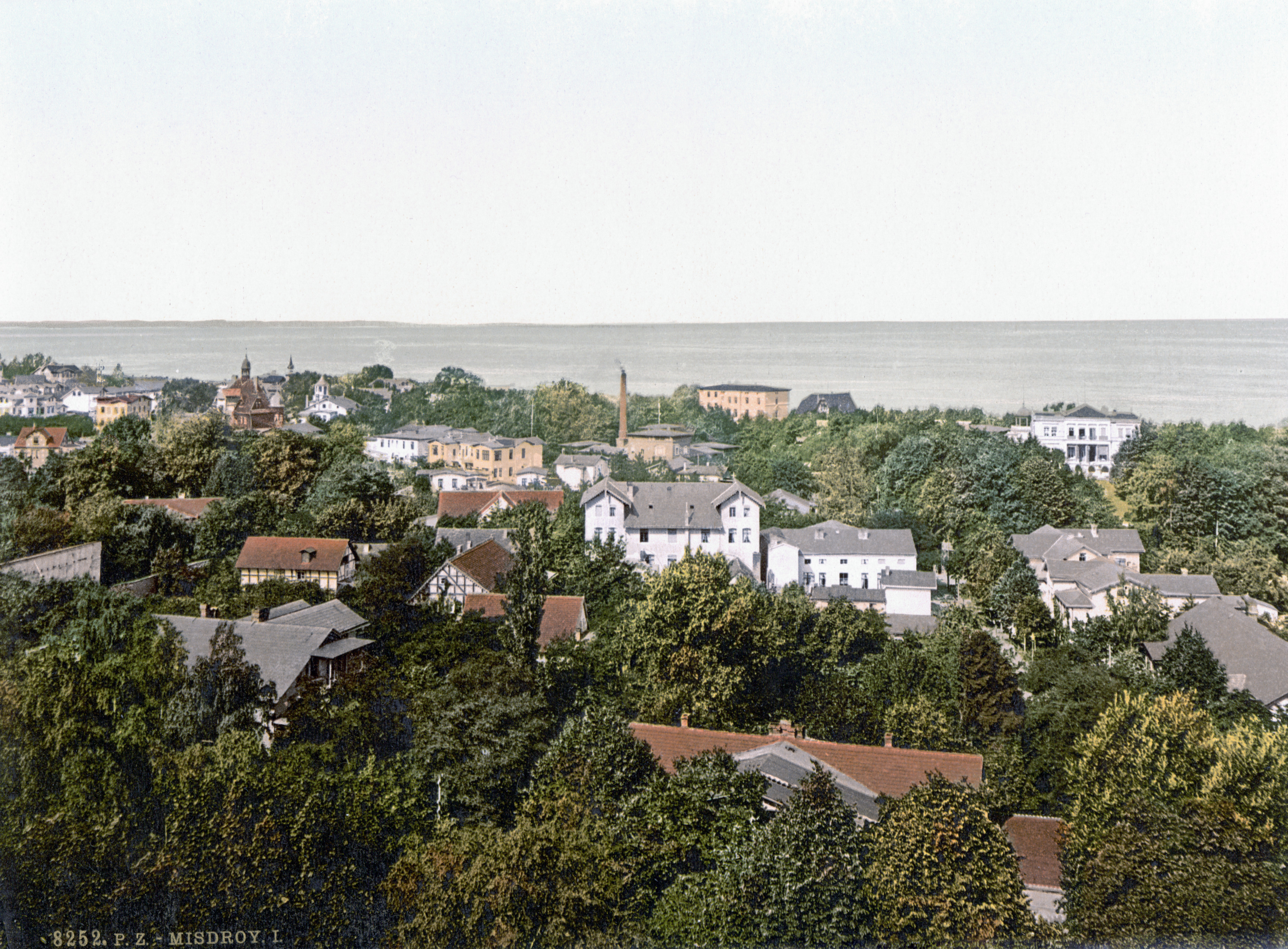 Misdroy